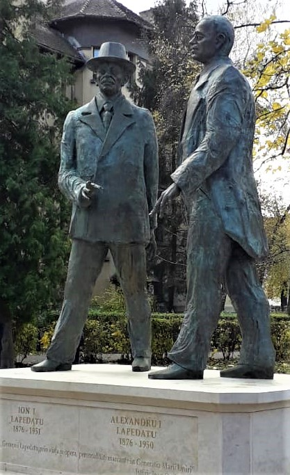 Double monument inaugurated in Brasov, Romania, on 8 november 2019